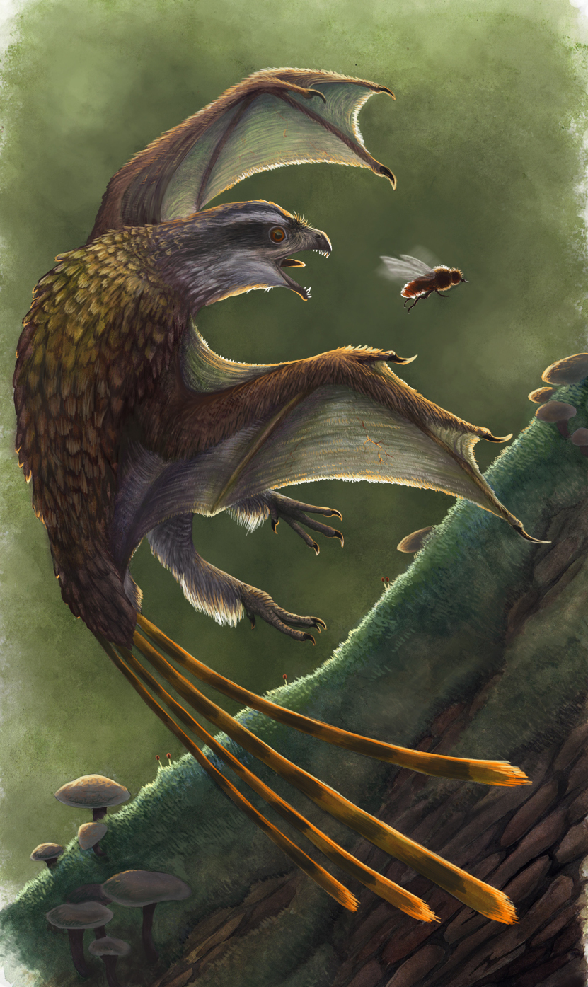 Restoration of the membrane-winged scansoriopterygid Yi qi